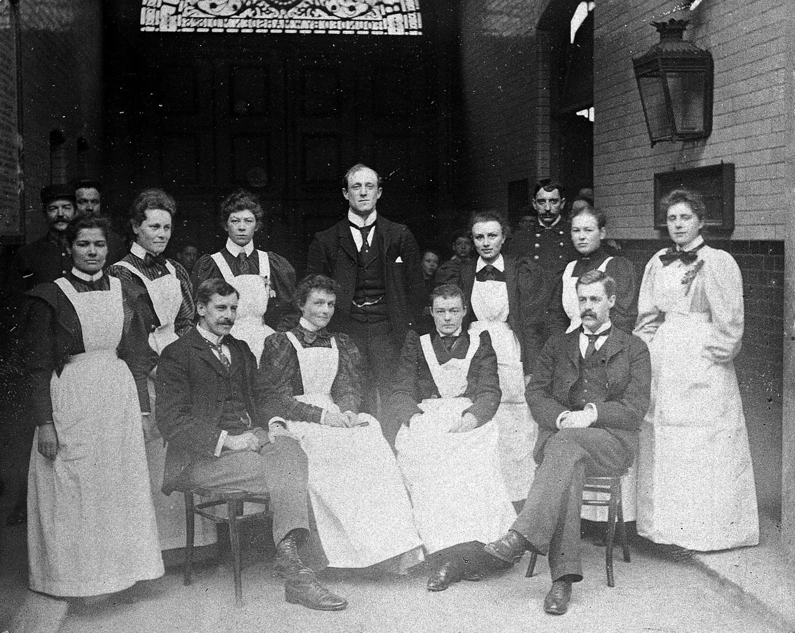 Medical Women's Federation Group photo including M L Aldrick-Blake and Miss Bolton, late 19th century. Archives & Manuscripts